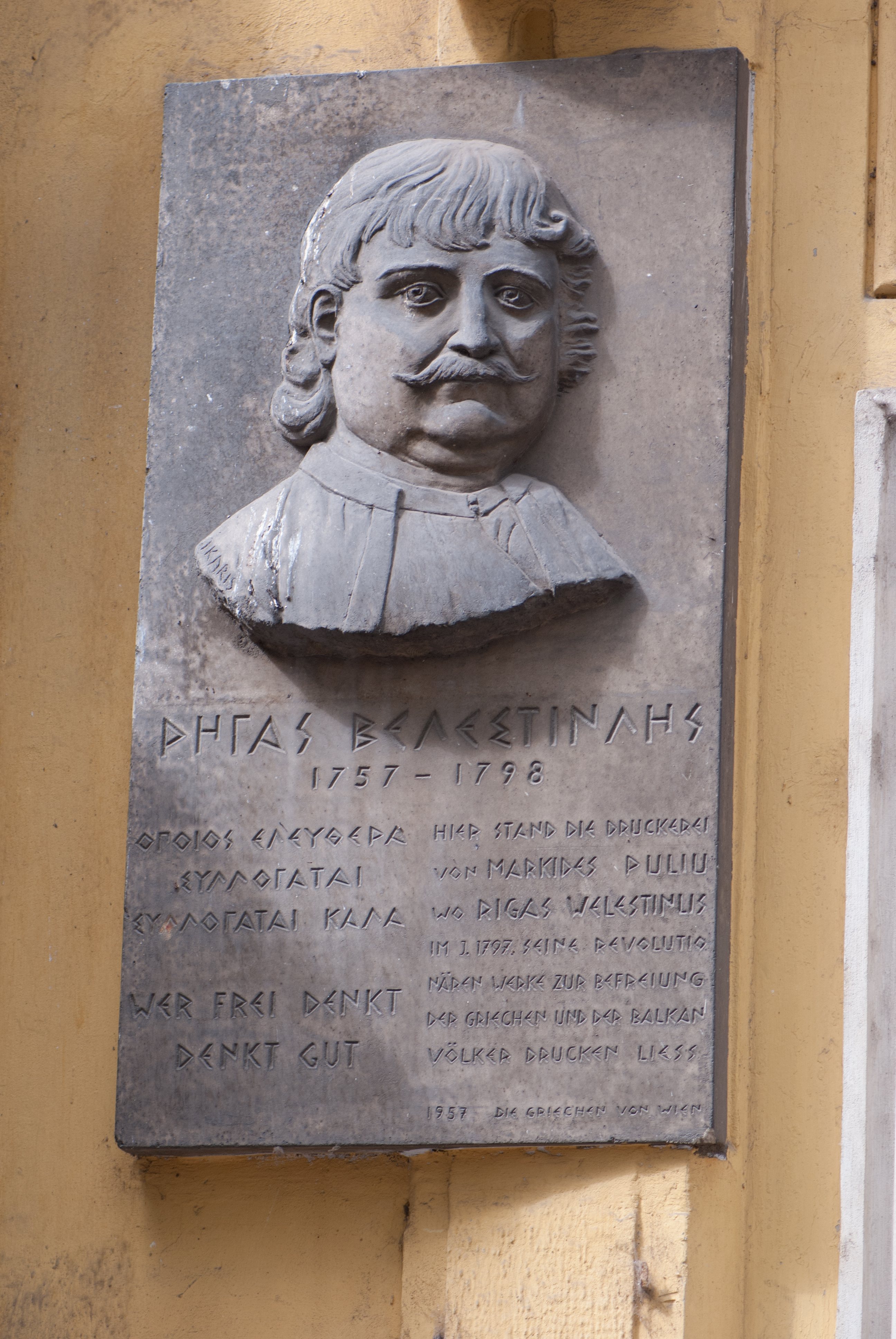 A hero of the Greek enlightenment - Vienna, Austria, 2013